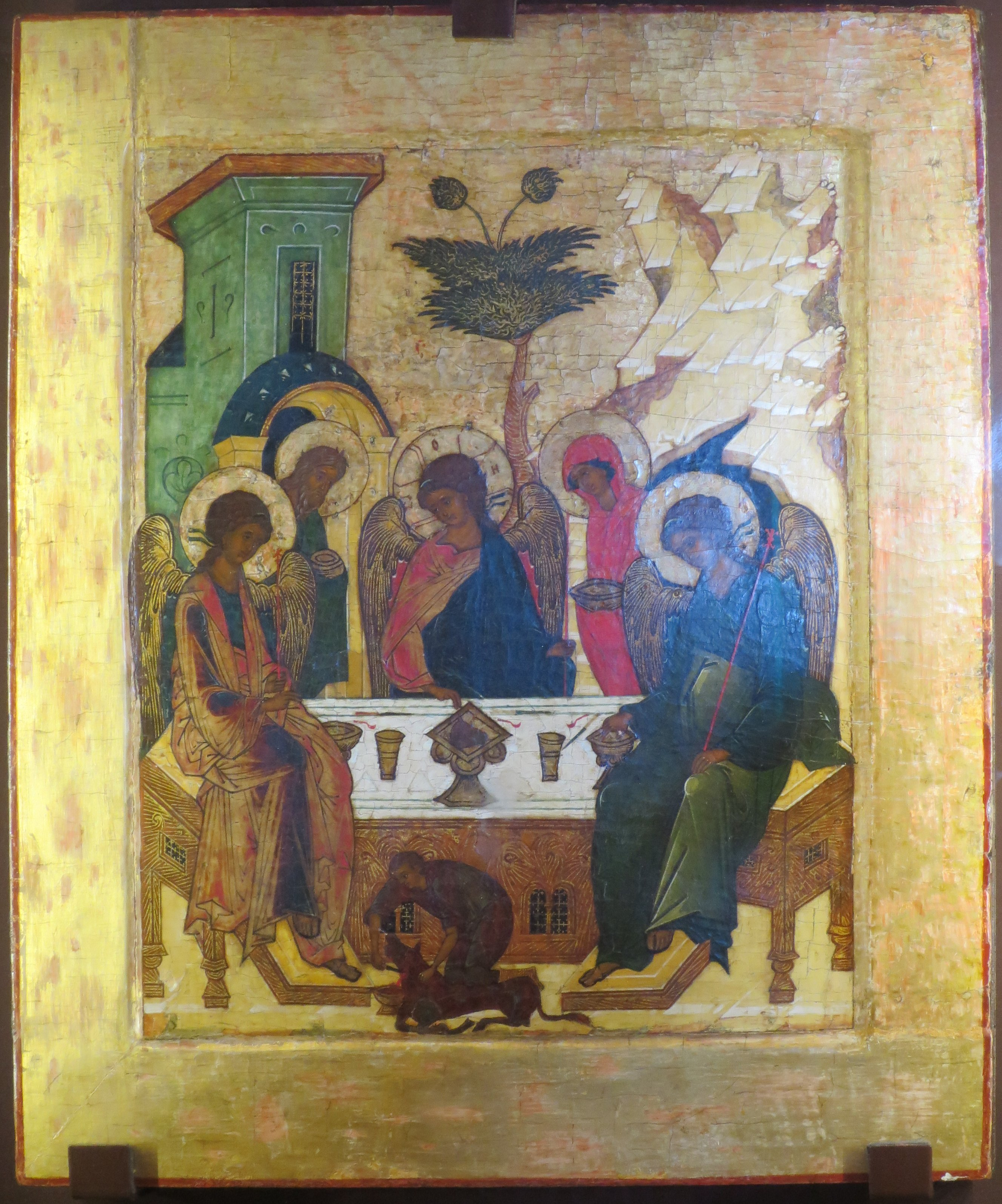 Old Testament Trinity, second half of the 16th century, Saint Basil's Cathedral